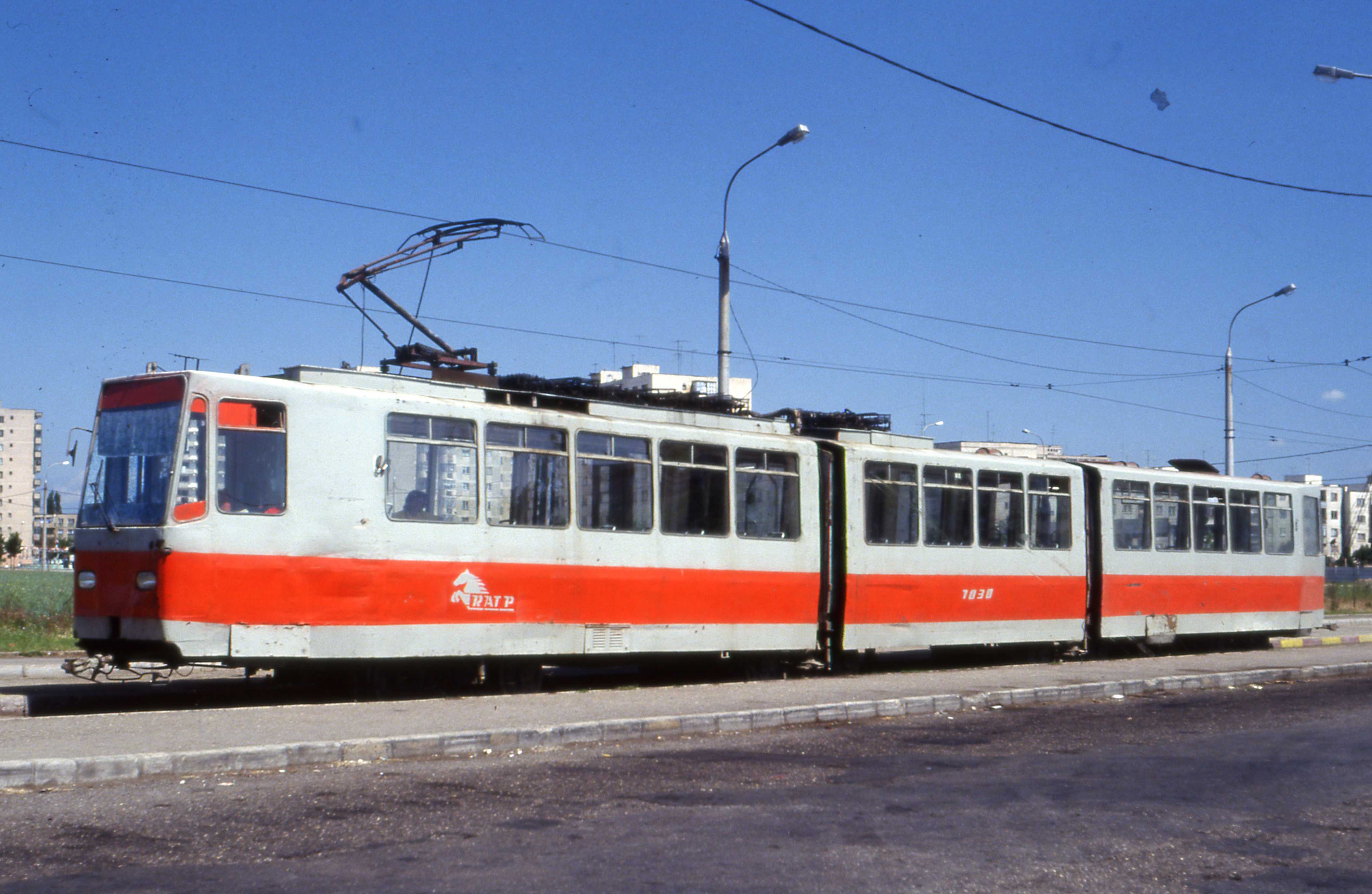 A close up of V3A articulated card 7030 at the Gara Ploiesti West. I think. Since the photograph, all the Romanian built trams have been withdrawn and replaced by second hand Tatras from Potsdam in the former GDR.